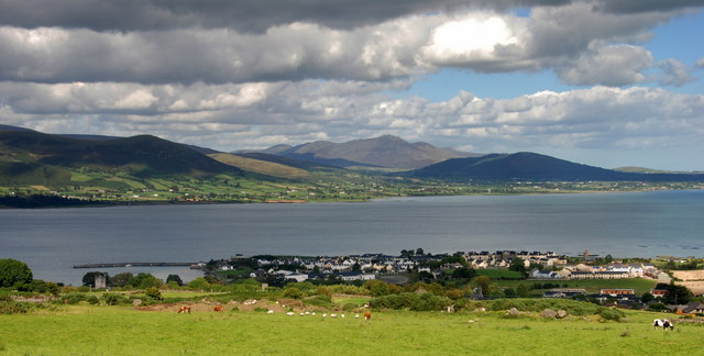 Carlingford and the Mourne Mountains